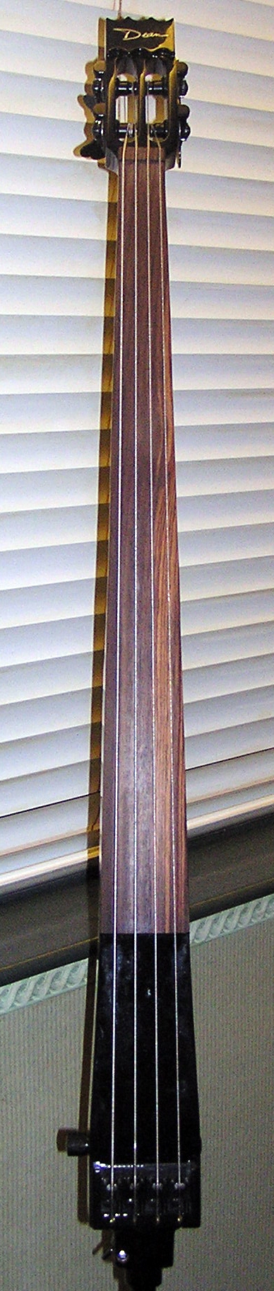 Dean Pace 4 string upright bass. Taken by Light Current 28 Dec 2005 using Olympus C745 UltraZoom camera. All copyright surrendered. Any suggestions on down compression gratefully rcd! --Light current 00:47, 28 December 2005 (UTC)